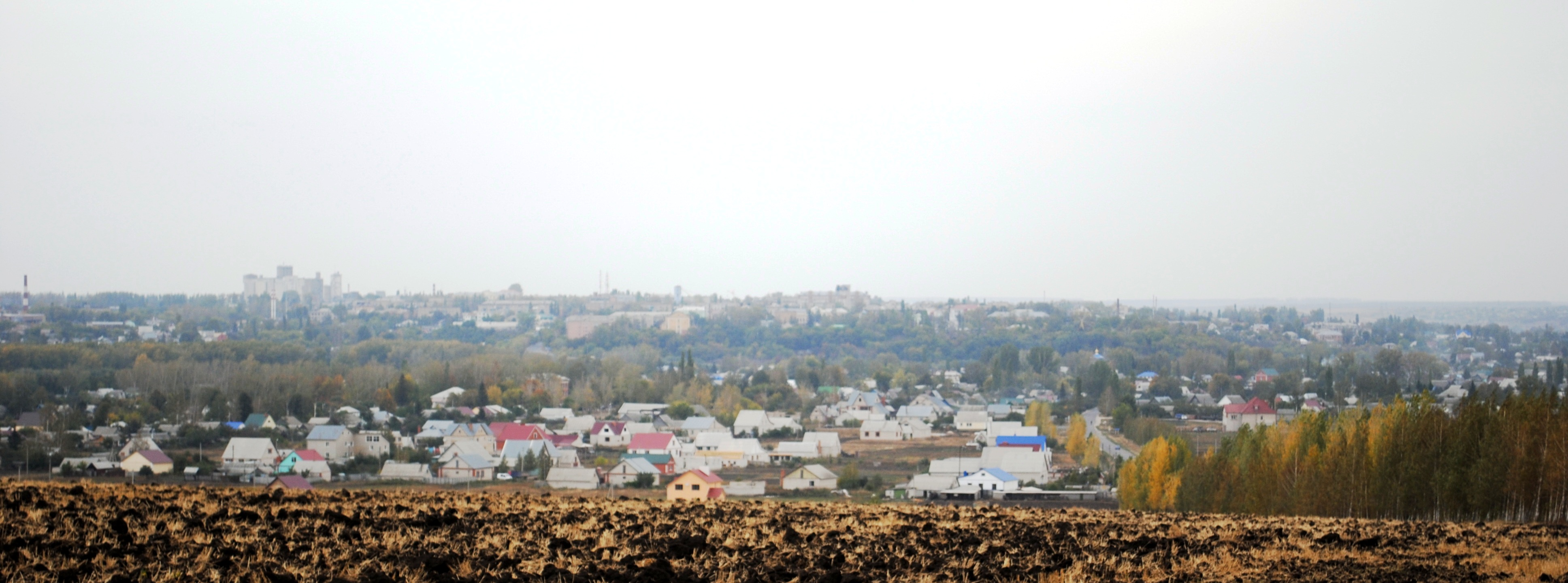 Belomestnoe